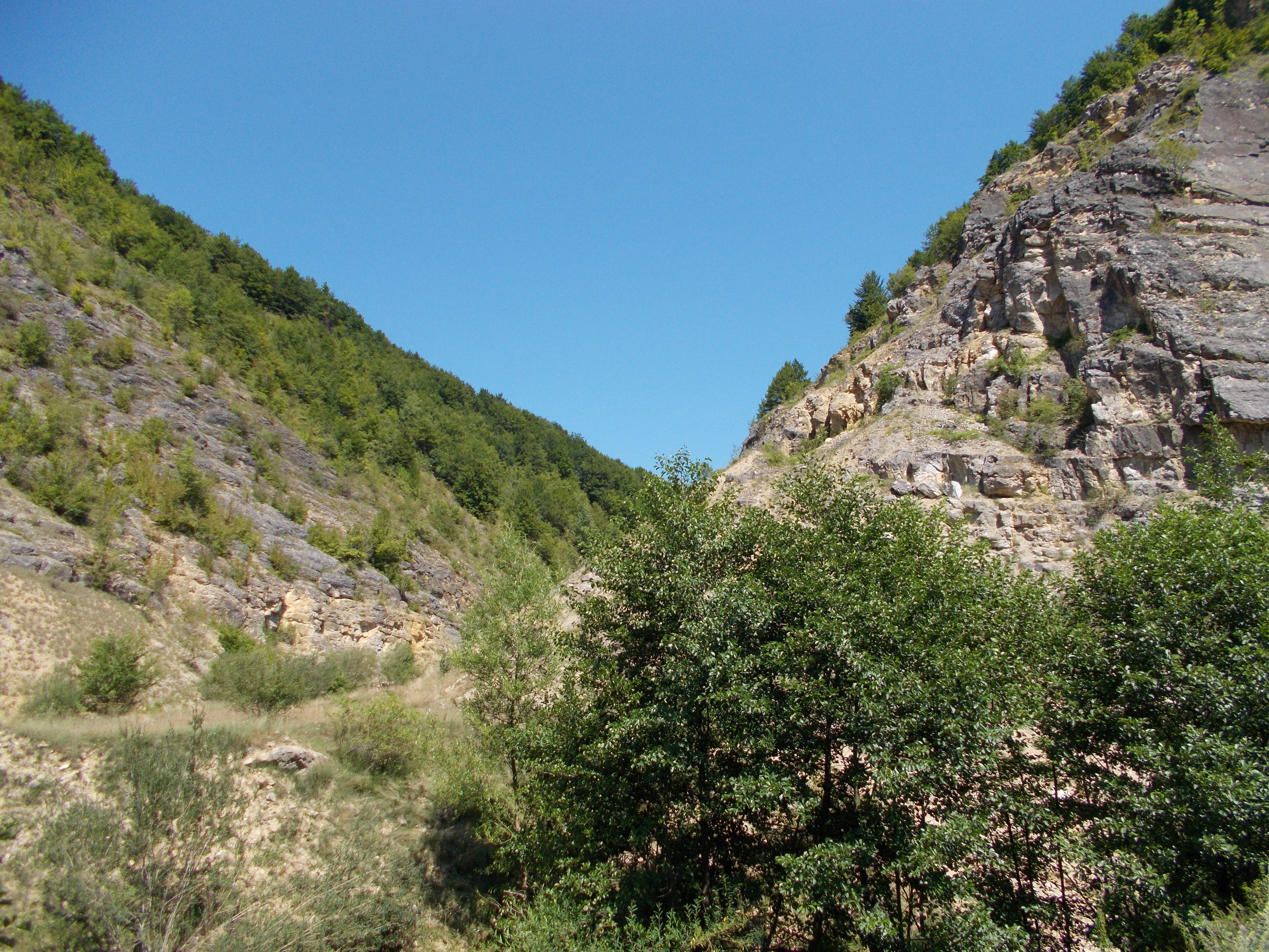 ”Cheile Babei” Nature Reserve